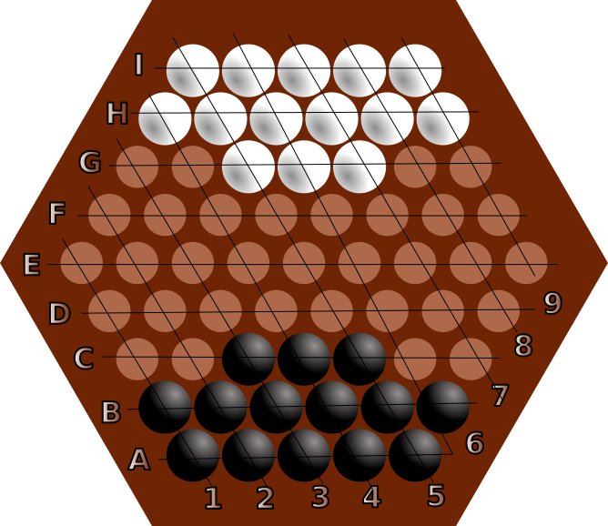 Coordinates on a board for abalona